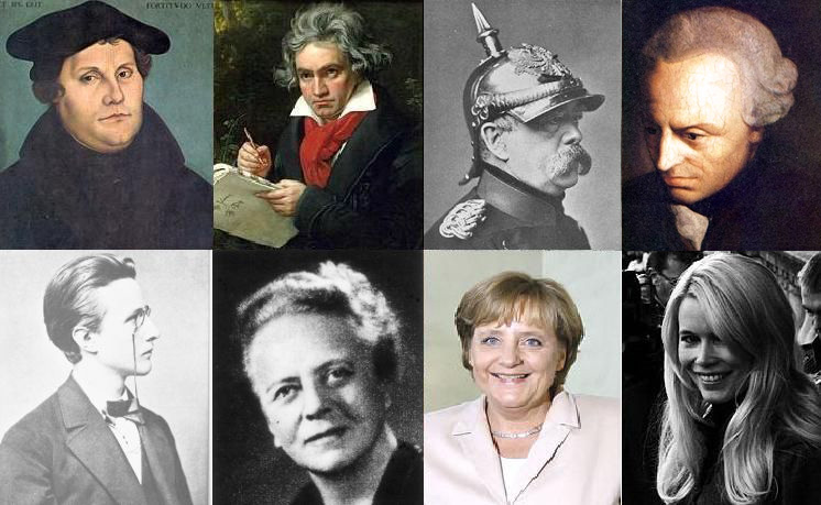 Famous people from Germany